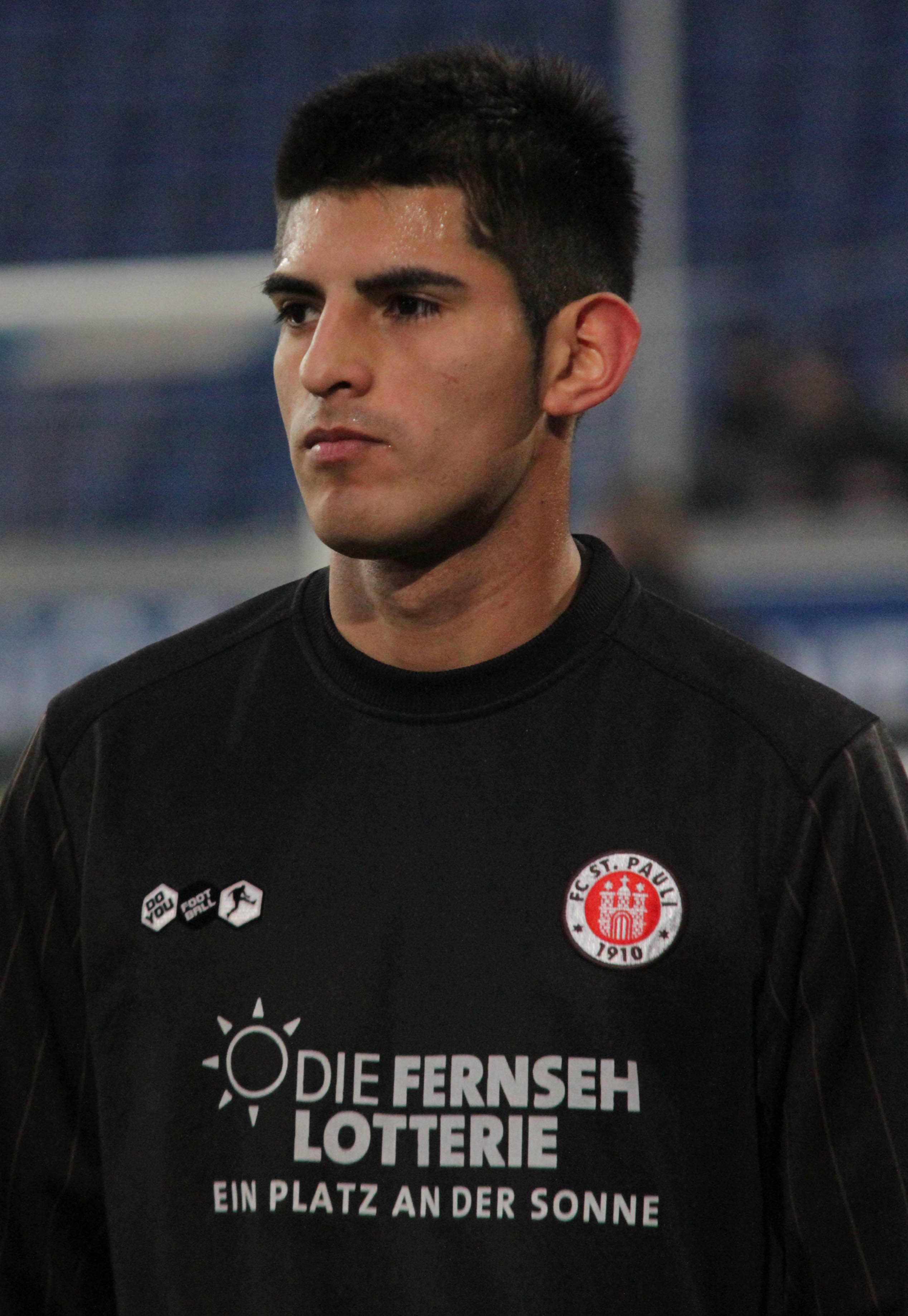 Peruvian footballer Carlos Zambrano